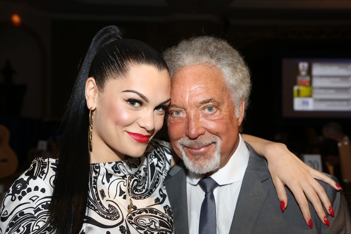 Jessie J and Tom Jones on stage at the Silver Clef Awards 2012 Other information With thanks to John Marshall - JM Enternational